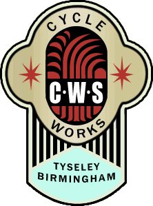 Self-made facsimile of CWS headbadge transfer design. The home page of the website that it is on declares that all images on the site are published under the Creative Commons Attribution-Share Alike 3.0 licence